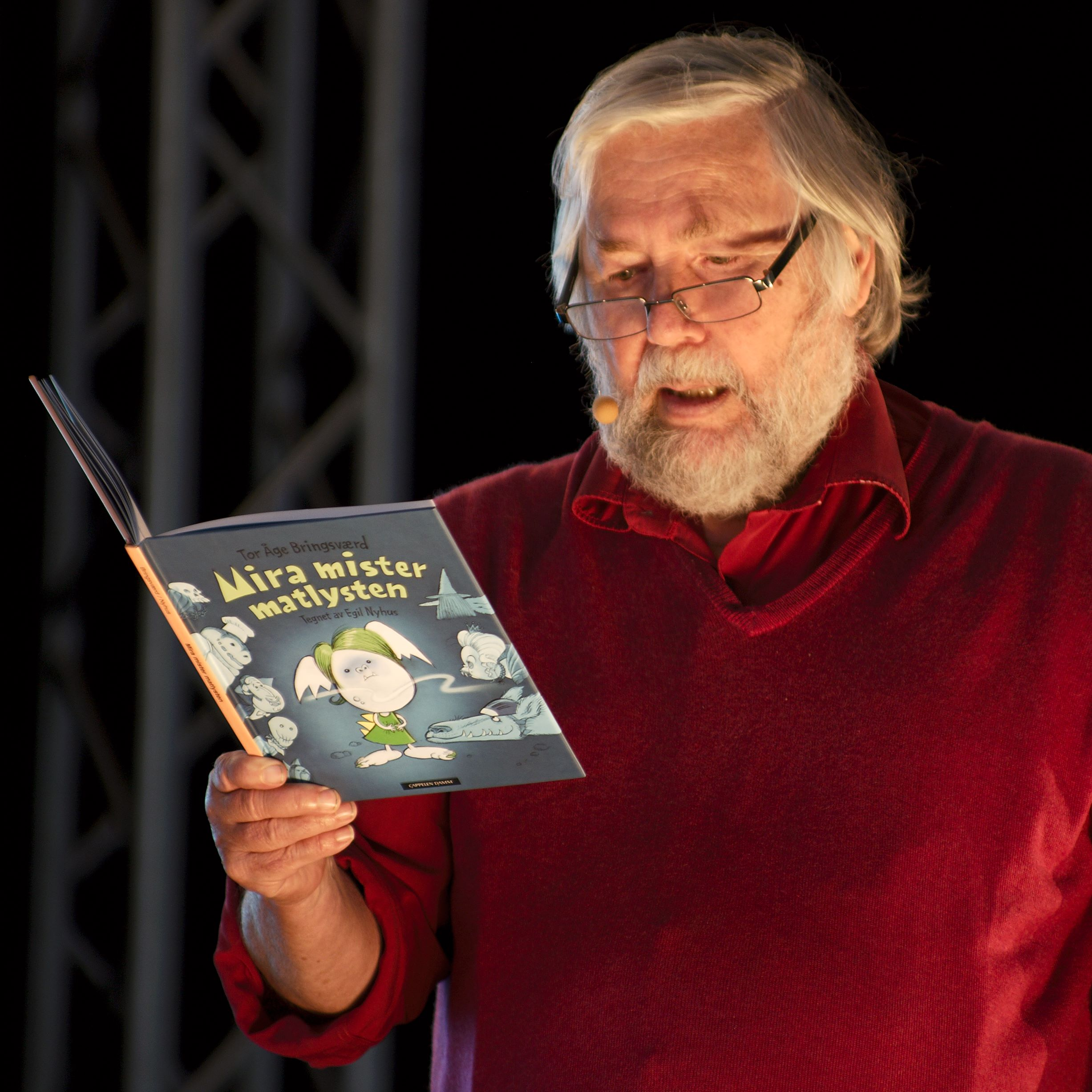 Tor Åge Bringsværd at Oslo bokfestival 2011 reading from children's picture book Mira mister matlysten. Book cover and illustrations by Egil Nyhus